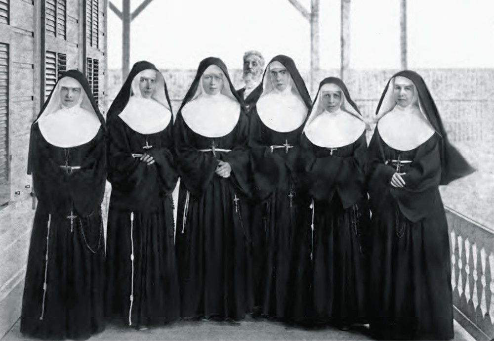 Sisters of St. Francis who served in 1886 at the Branch Hospital for Lepers in Kakaako, Honolulu. Left to right: Sr. M. Rosalia McLaughlin, Sr. M Martha Kaiser, Sr M. Leopoldina Burns, Sr. M Charles Hoffmann, Sr. M. Crescentia Eilers, and Mother Marianne Cope. At center, rear: Walter Murray Gibson.